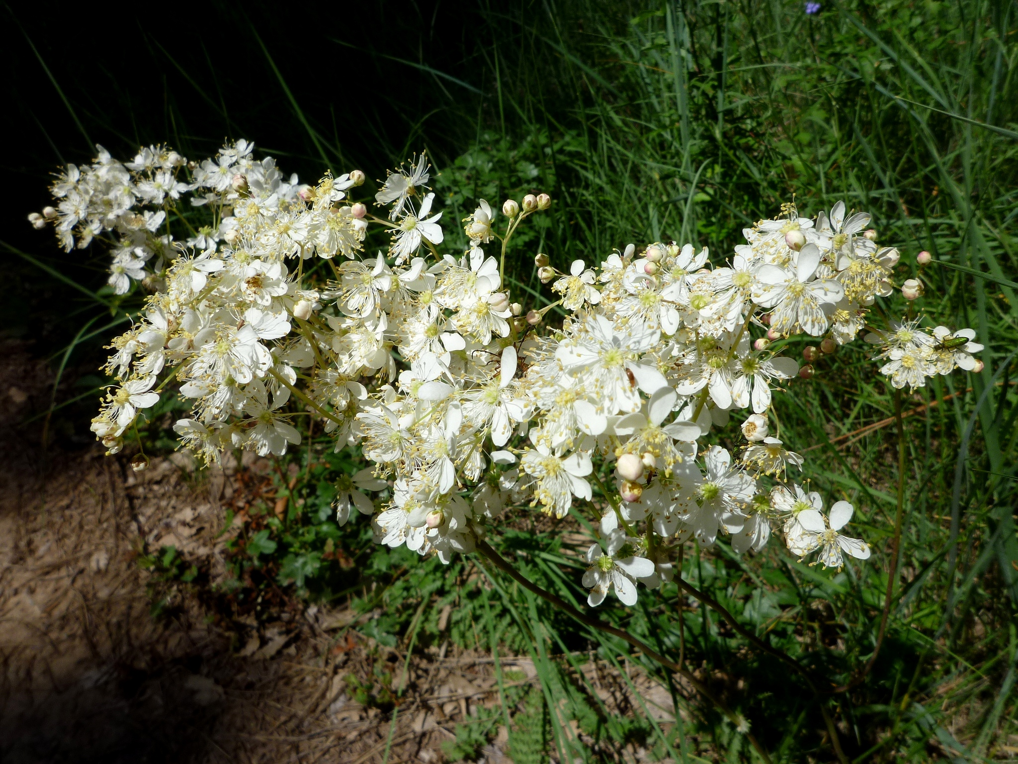 Filipendula vulgaris. In Torà (Segarra - Catalunya). To 580 m. altitude